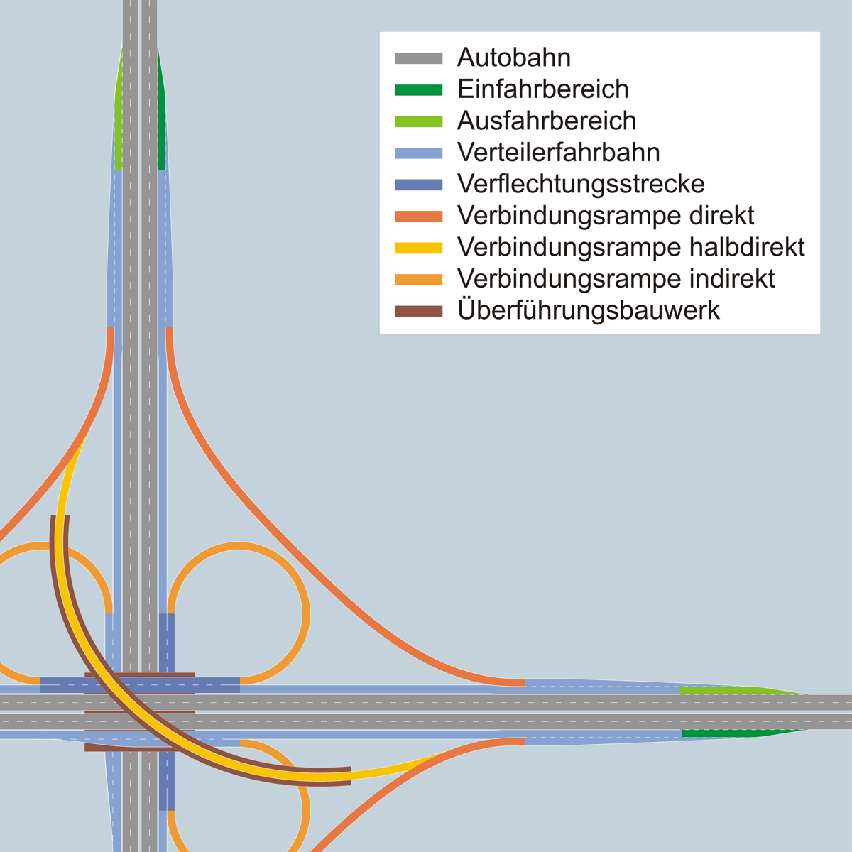 Components of a Traffic Junction